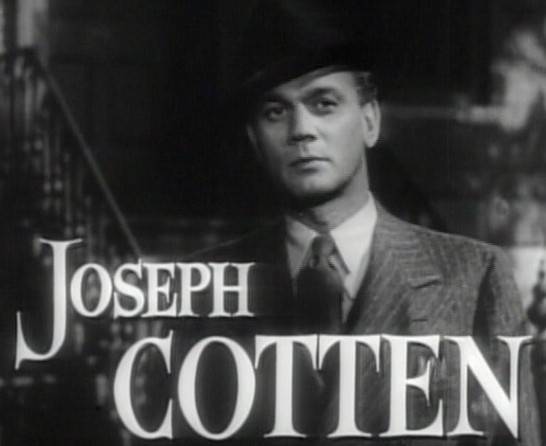 Cropped screenshot of Joseph Cotten from the trailer for the film Shadow of a Doubt.